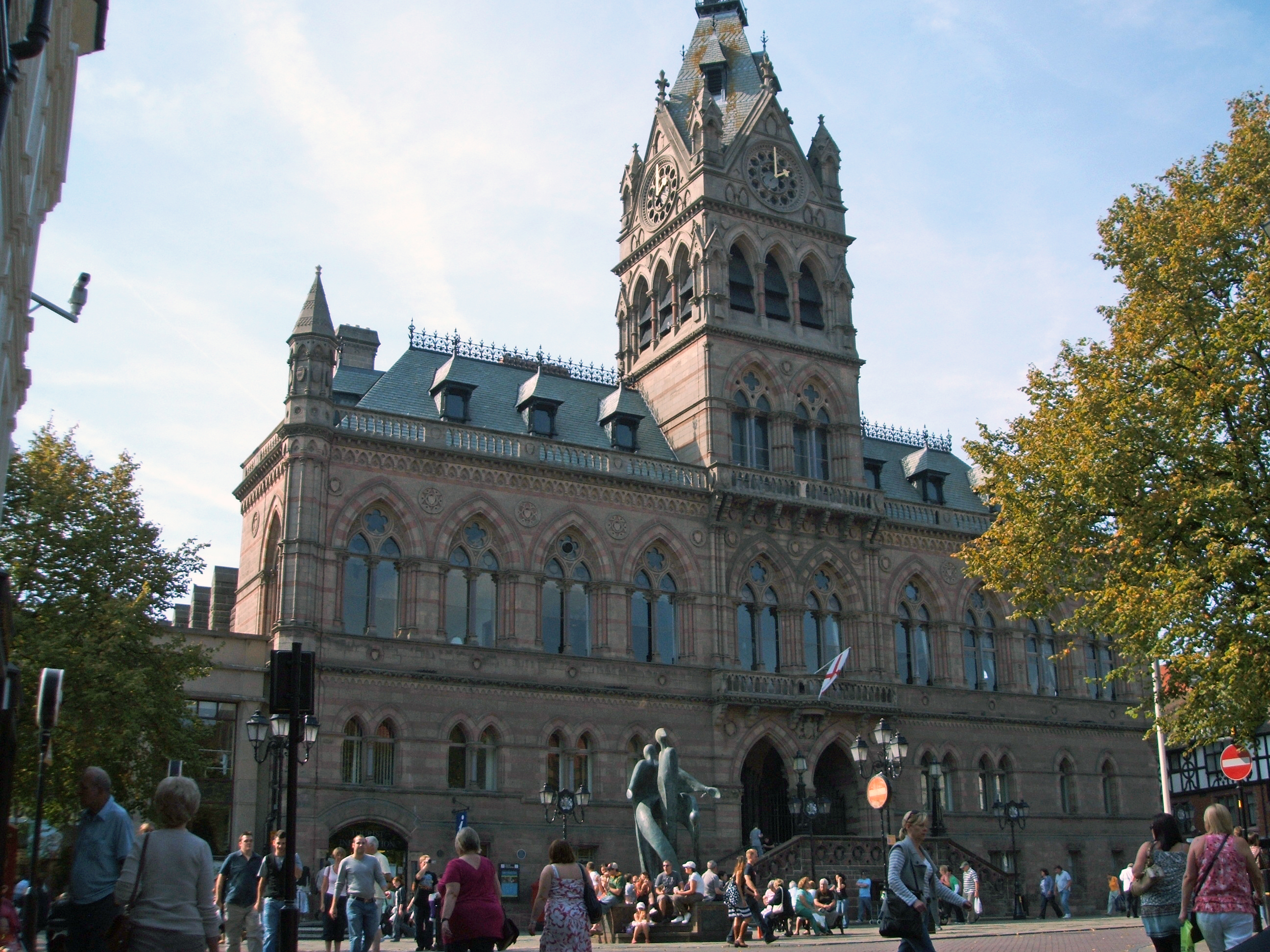 Town Hall, Chester